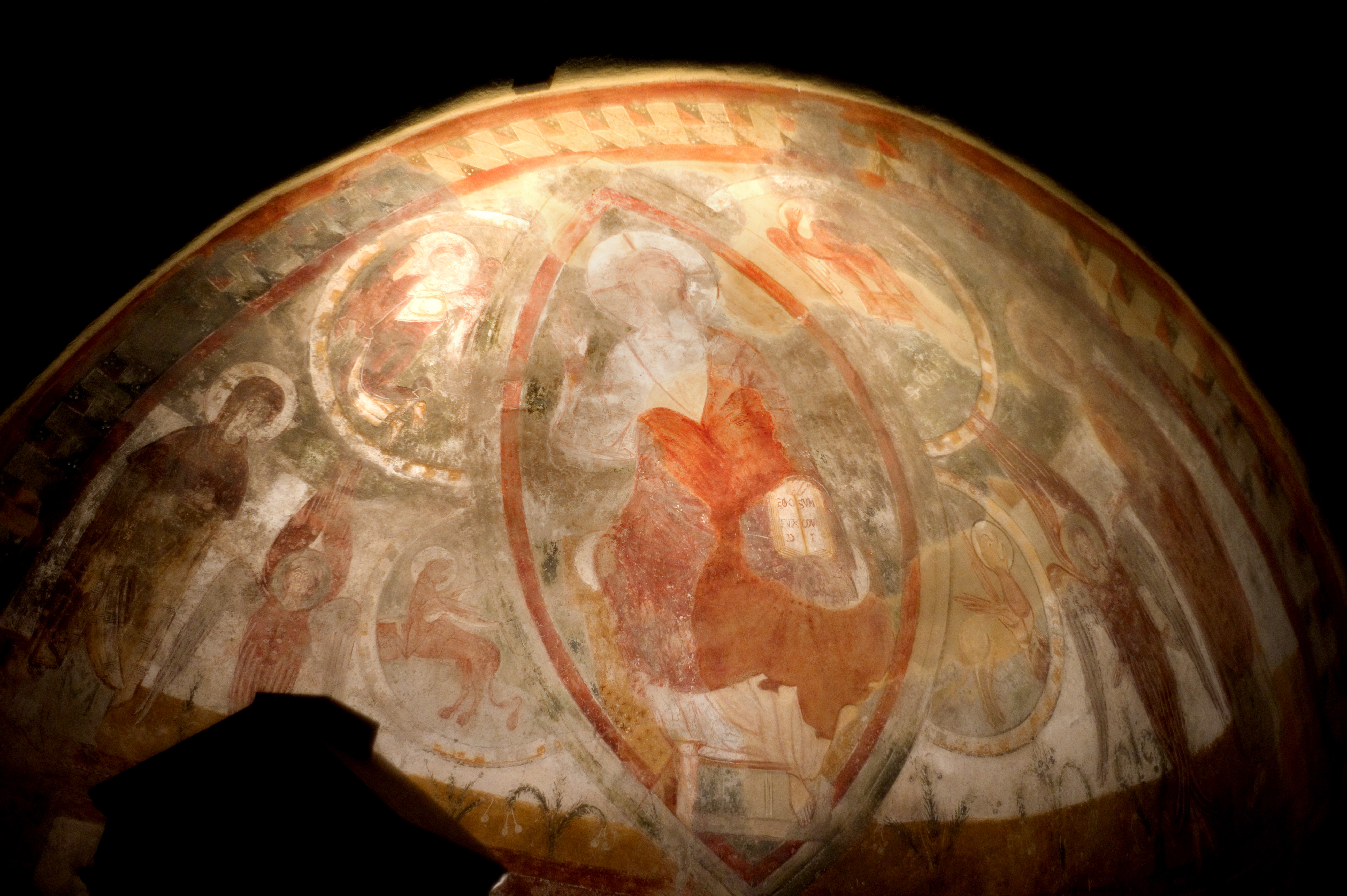 Allinges near Thonon, France, castle, fresques in chapel (11th century)